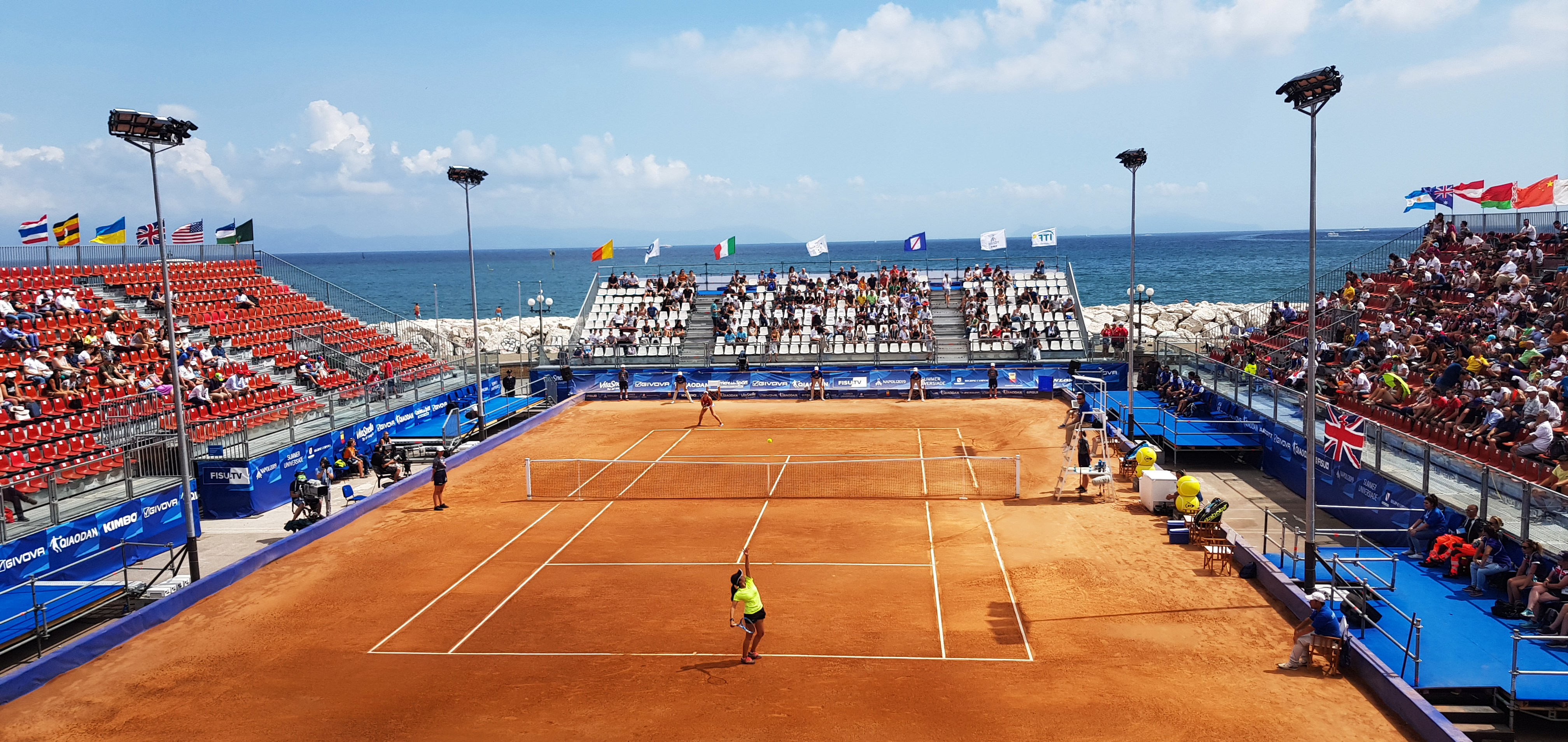 The tennis main court of 2019 Summer Universiade in Naples (Italy).